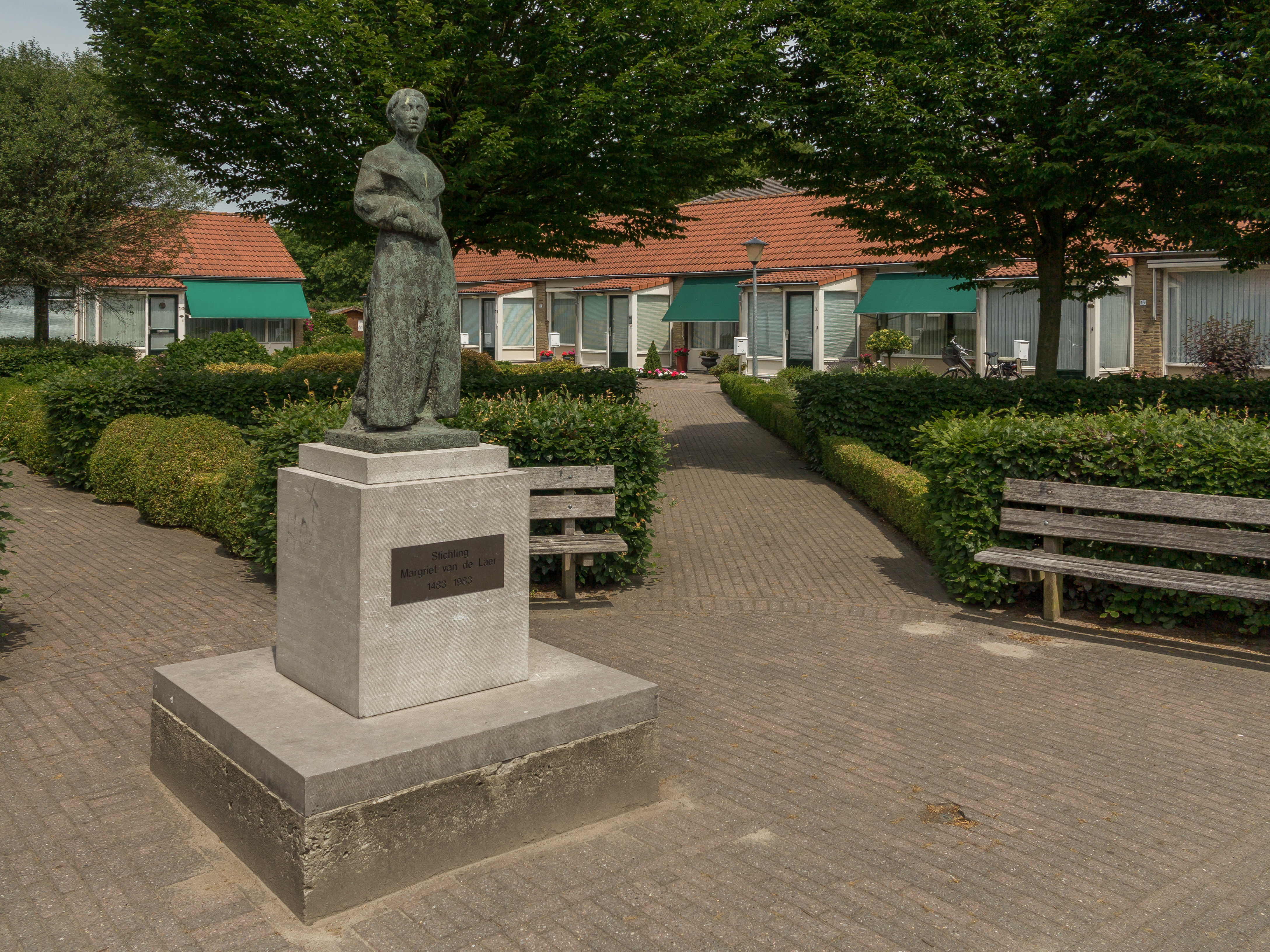 Zundert, statue Margriet van der Laer